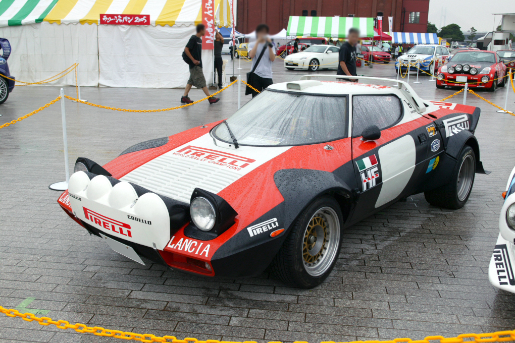 Lancia Stratos HF at The Spirit of Rally 2005.